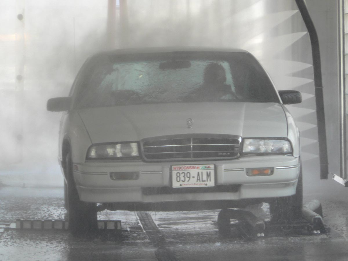 A touchless car wash, which uses high pressure jets of water and detergent to clean with. This typical example was part of a gas station located in Milwaukee, Wisconsin. Category:Images of Milwaukee, Wisconsin